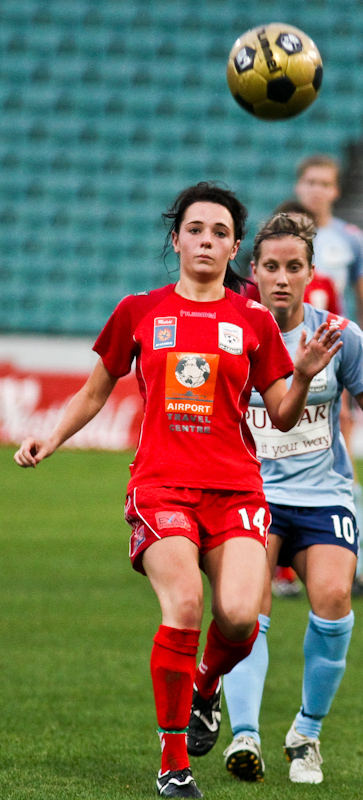 Donna Cockayne playing for Adelaide United in the W-League.